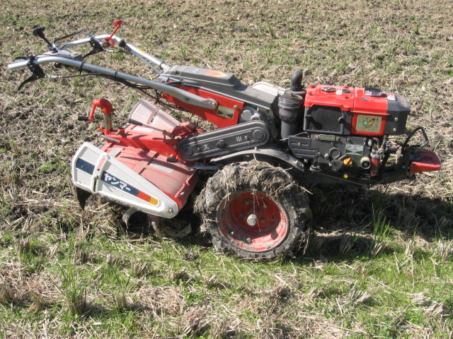 A compact rotary tiller for agriculture, Japanese made (Yanmar).